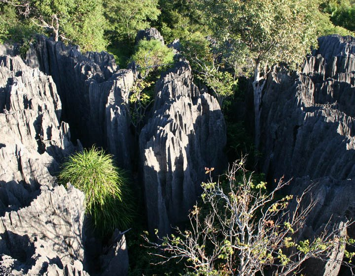 Rocky massifs of «tsingy» in Tsingy de Bemaraha reserve, Madagascar. Photo of Igor Sid.